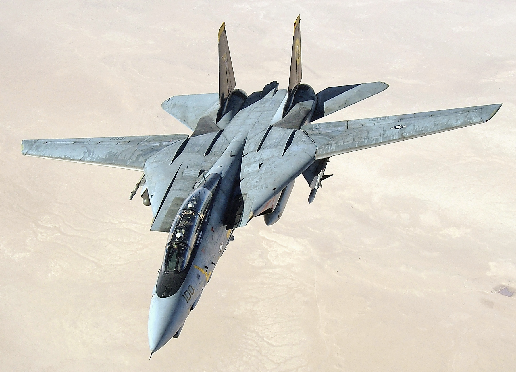 Persian Gulf (Nov. 5, 2005) – An F-14D Tomcat, assigned to the “Tomcatters” of Fighter Squadron Three One (VF-31), conducts a mission over the Persian Gulf-region. VF-31 is assigned to Carrier Air Wing Eight (CVW-8), currently embarked aboard the Nimitz-class aircraft carrier USS Theodore Roosevelt (CVN 71). U.S. Air Force photo by Tech. Sgt. Rob Tabor (RELEASED)